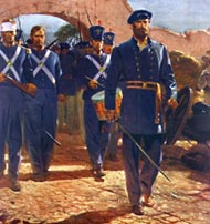 General John A. Quitman and a Battalion of Marines Entering Mexico City, 1847. Signed Tom Lovell (lr) Oil on canvas 33 x 45 inches.